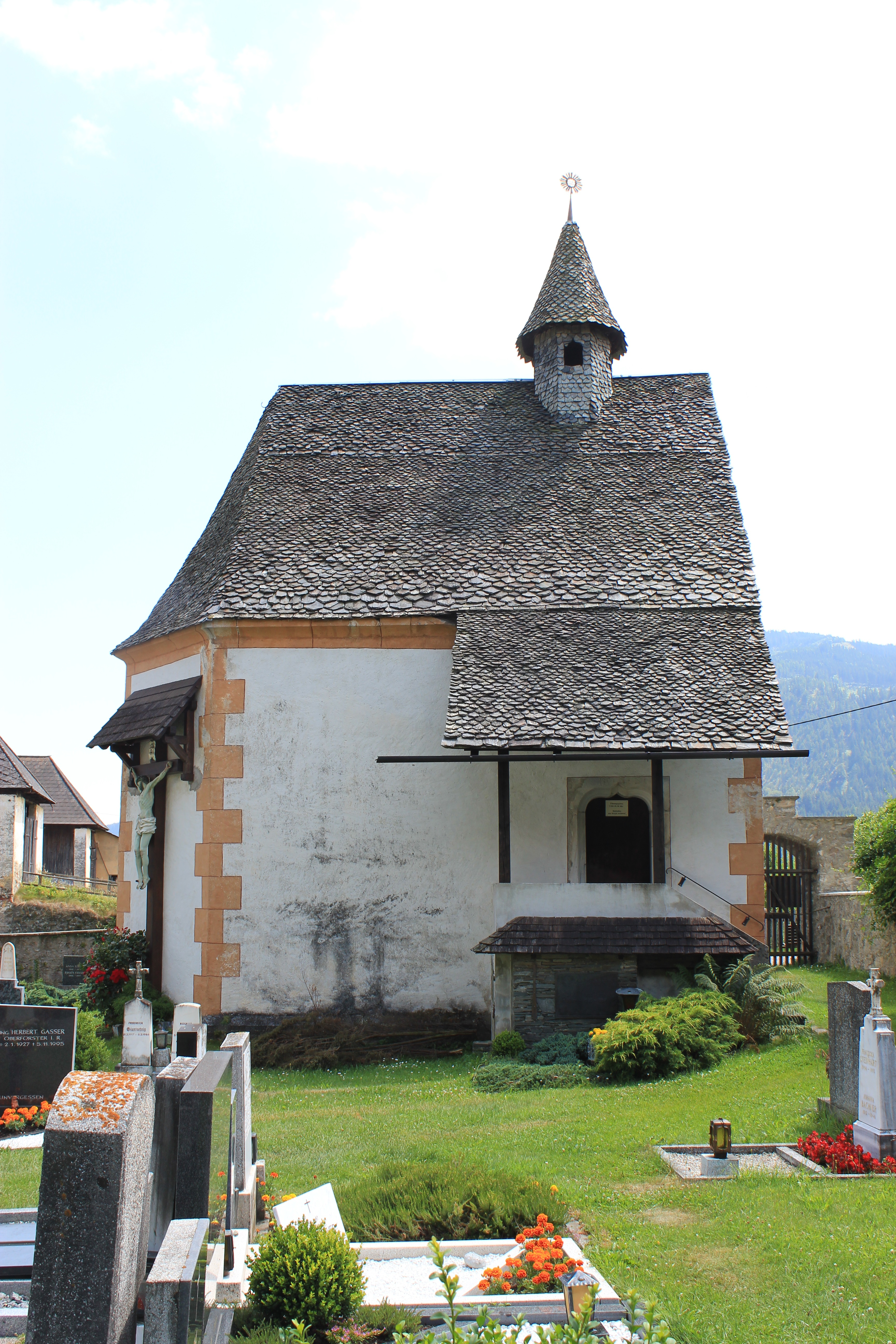 Sankt Stefan in community of Friesach - Charnel house